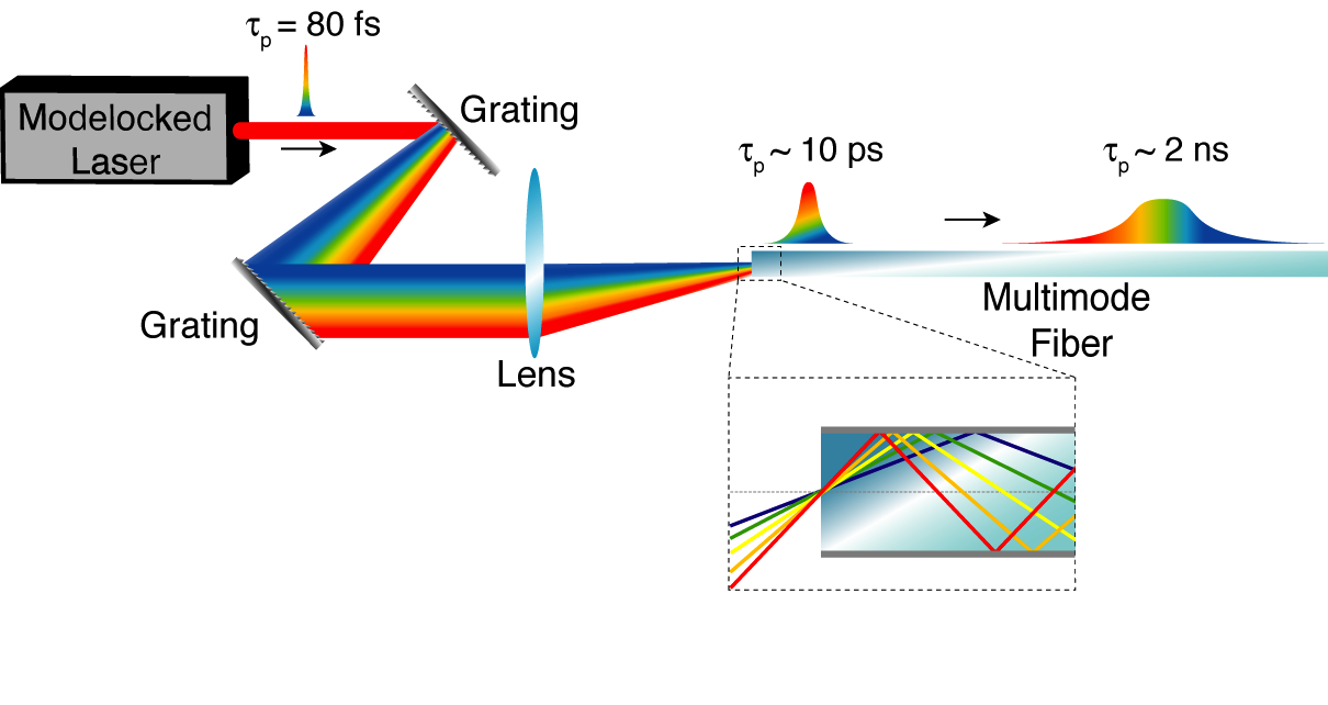 CMD diagram